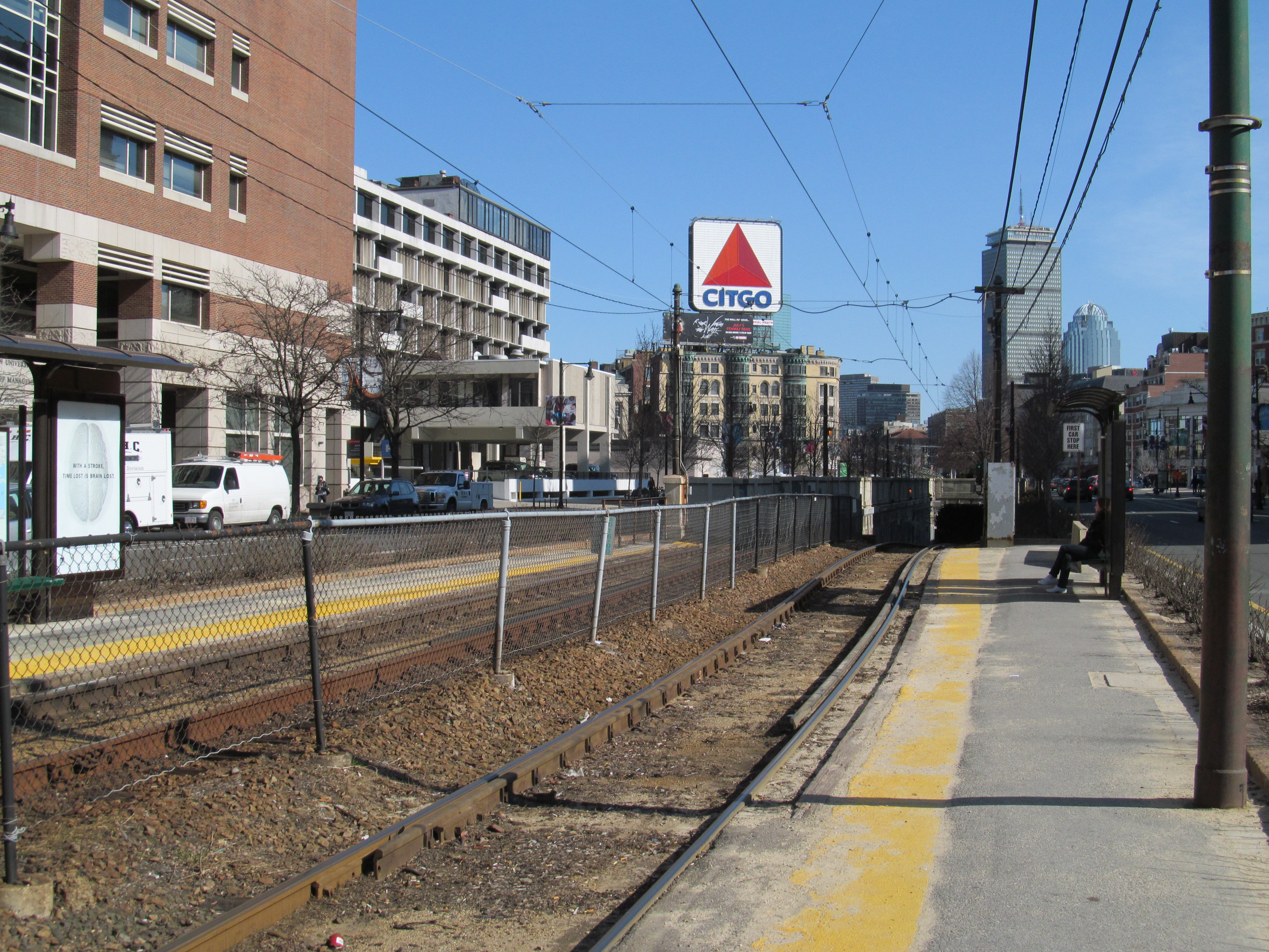 Blandford Street station, looking inbound